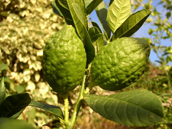 Corsican citron - Cedrat de Corse